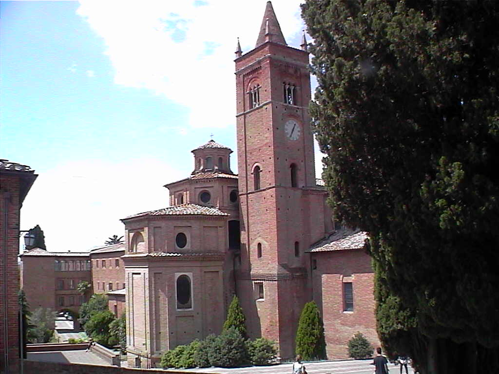 Monte Oliveto Maggiore, abbey church.